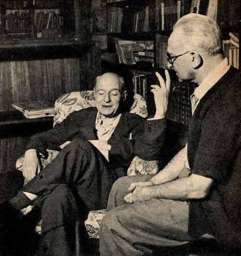 Italian poet and writer Umberto Saba